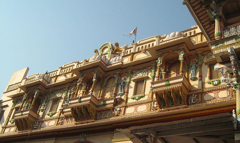 Photos of Ahmedabad's Walled City taken during the Heritage Walk conducted jointly by Ahmedabad Municipal Corporation and the CRUTA Foundation